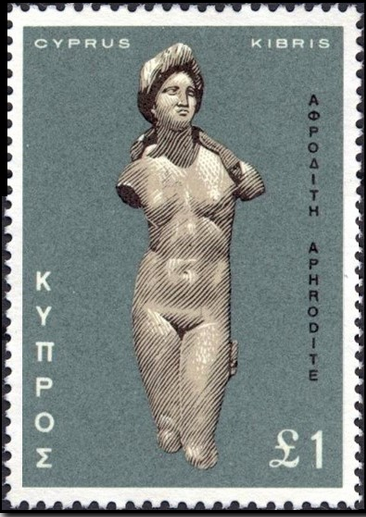 Stamp from Cyprus, 1966: Aphrodite from Soloi